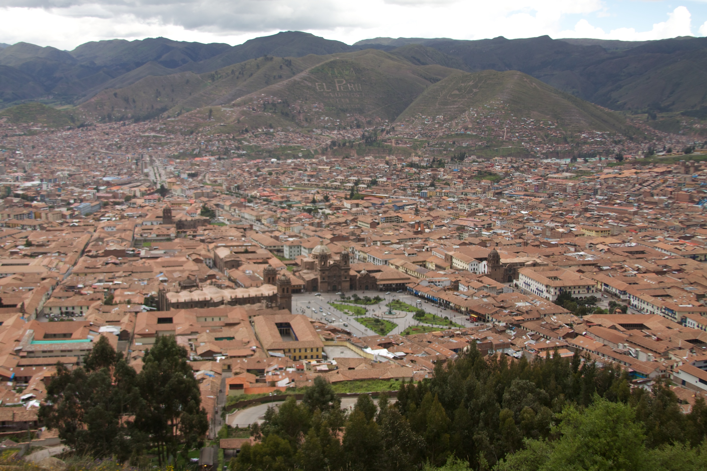 Peru - Cusco 057 - overlookng the city